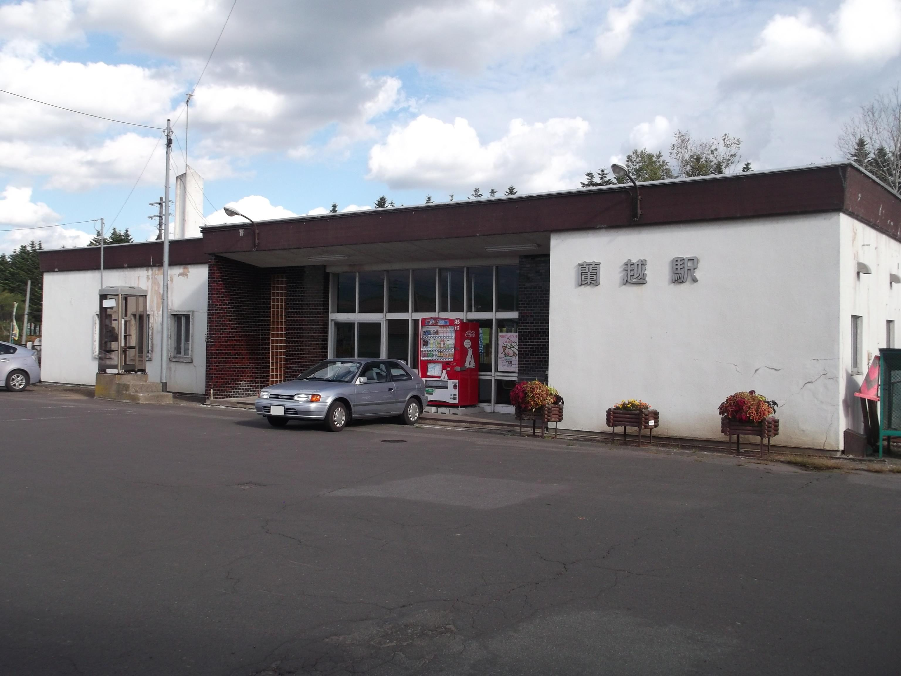 Rankoshi Station on the Hakodate Main Line